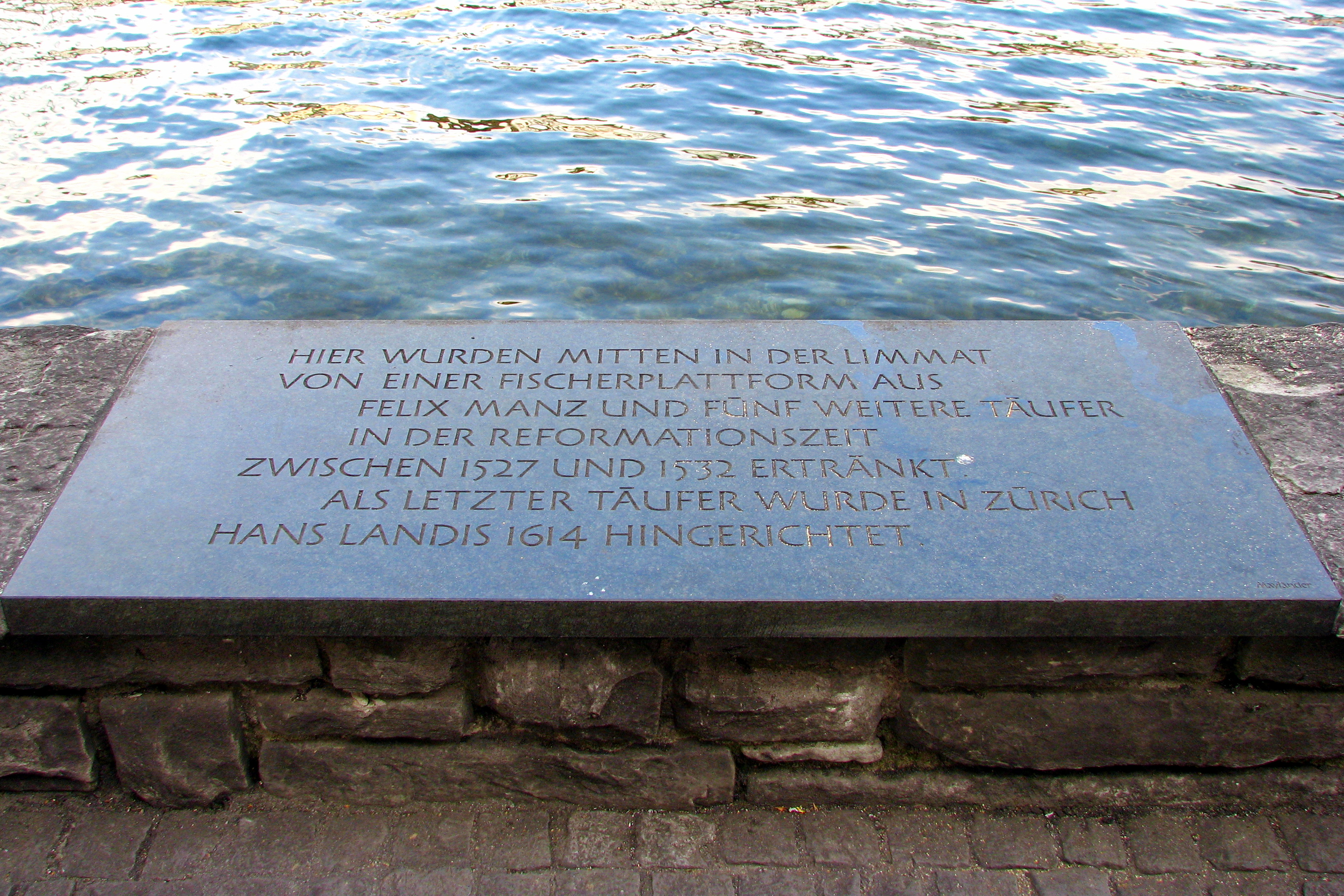 Zürich-Schipfe quarter : Memorial plate for the Anabaptists, murdered in early 16th century by the Zürich city government: "Here in the middle of the River Limmat from a fishing platform were drowned Felix Manz and five other Anabaptists during the Reformation of 1527 to 1532. Hans Landis, the last Anabaptist, was executed in Zurich during 1614."